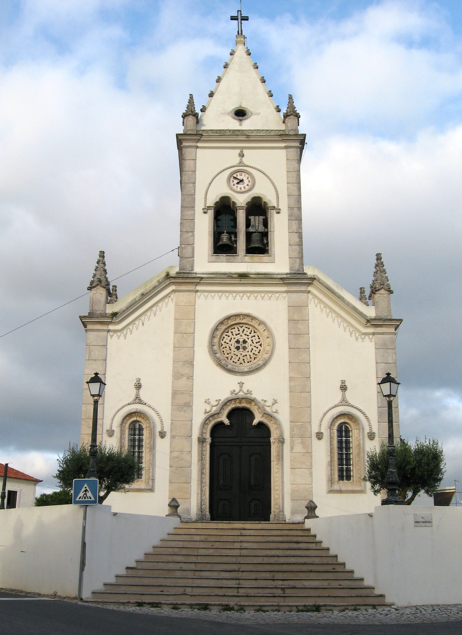 Alcobaça, Portugal, Mosteiro de Alcobaça, Coutos de Alcobaça, old county of the Abbey, city: Cela, Church of Santo André, 16th century